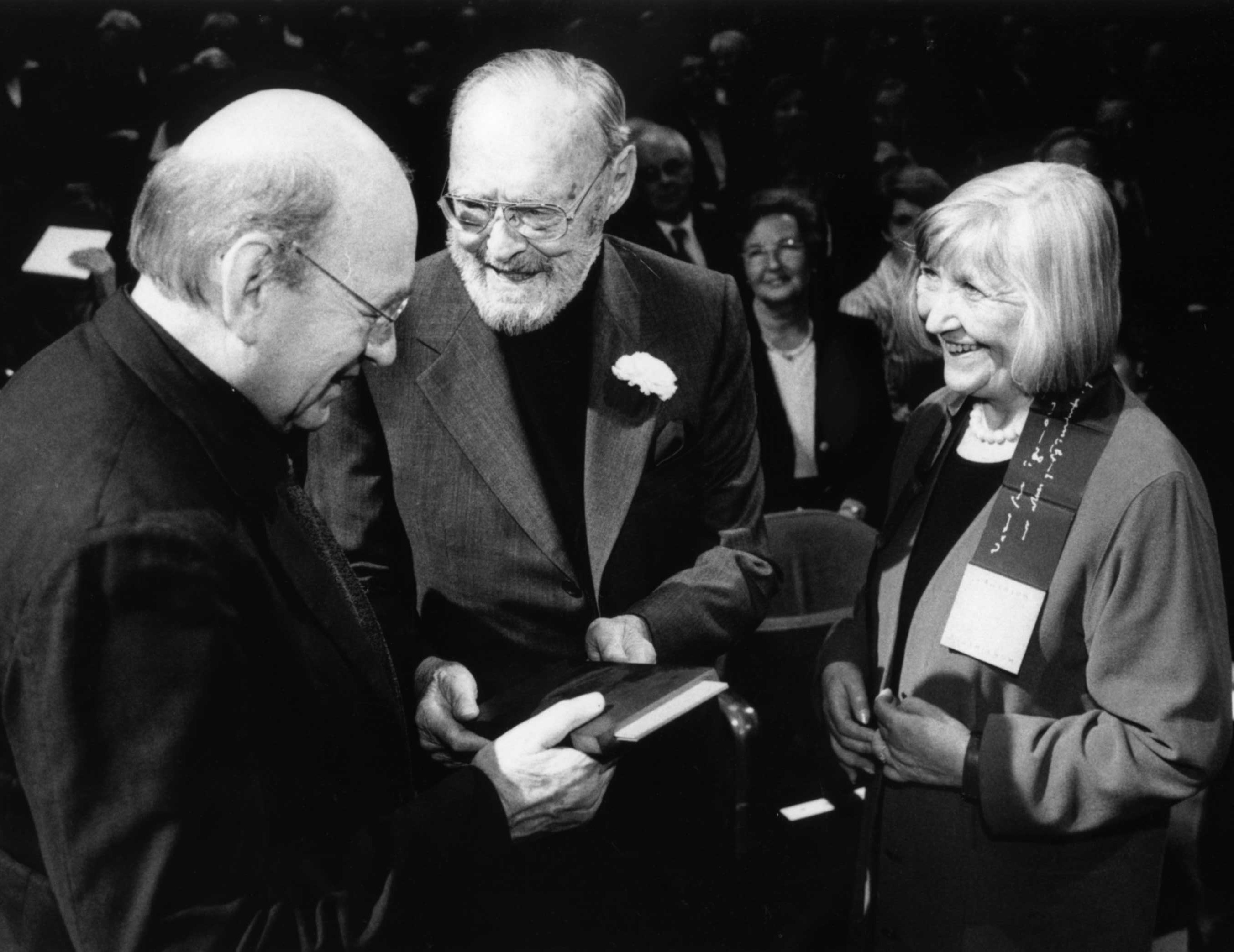 Bernd & Hilla Becher receive the Erasmus Prize 2002 from Prince Bernhard (the Netherlands). Photograph: Courtesy of the Praemium Erasmianum Foundation.